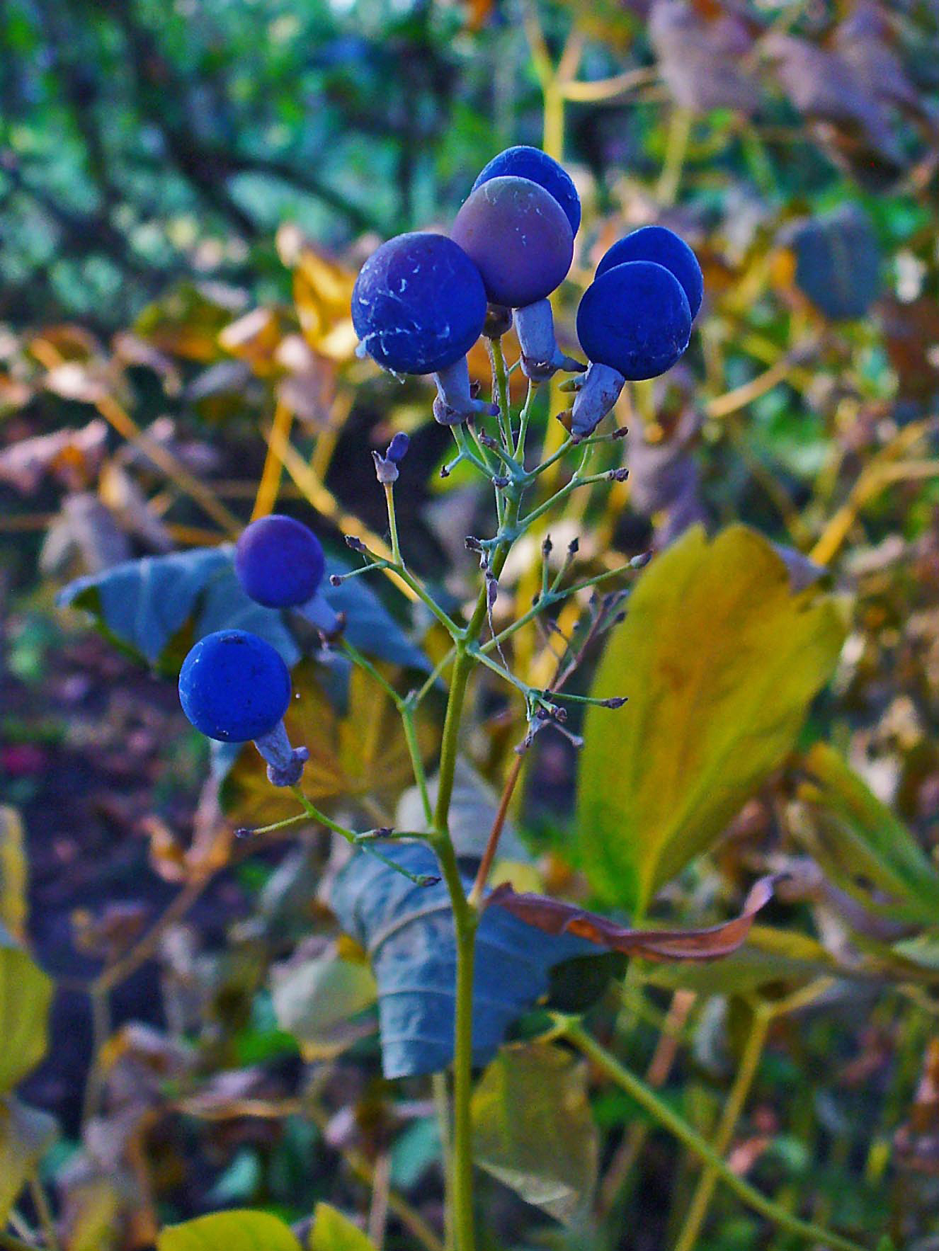 Caulophyllum thalictroides, Blue cohosh, fruits; Stutensee, Germany